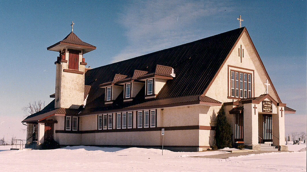 Architect: francis sullivan Location: Dwyer HillOntario, (Near Ottawa)